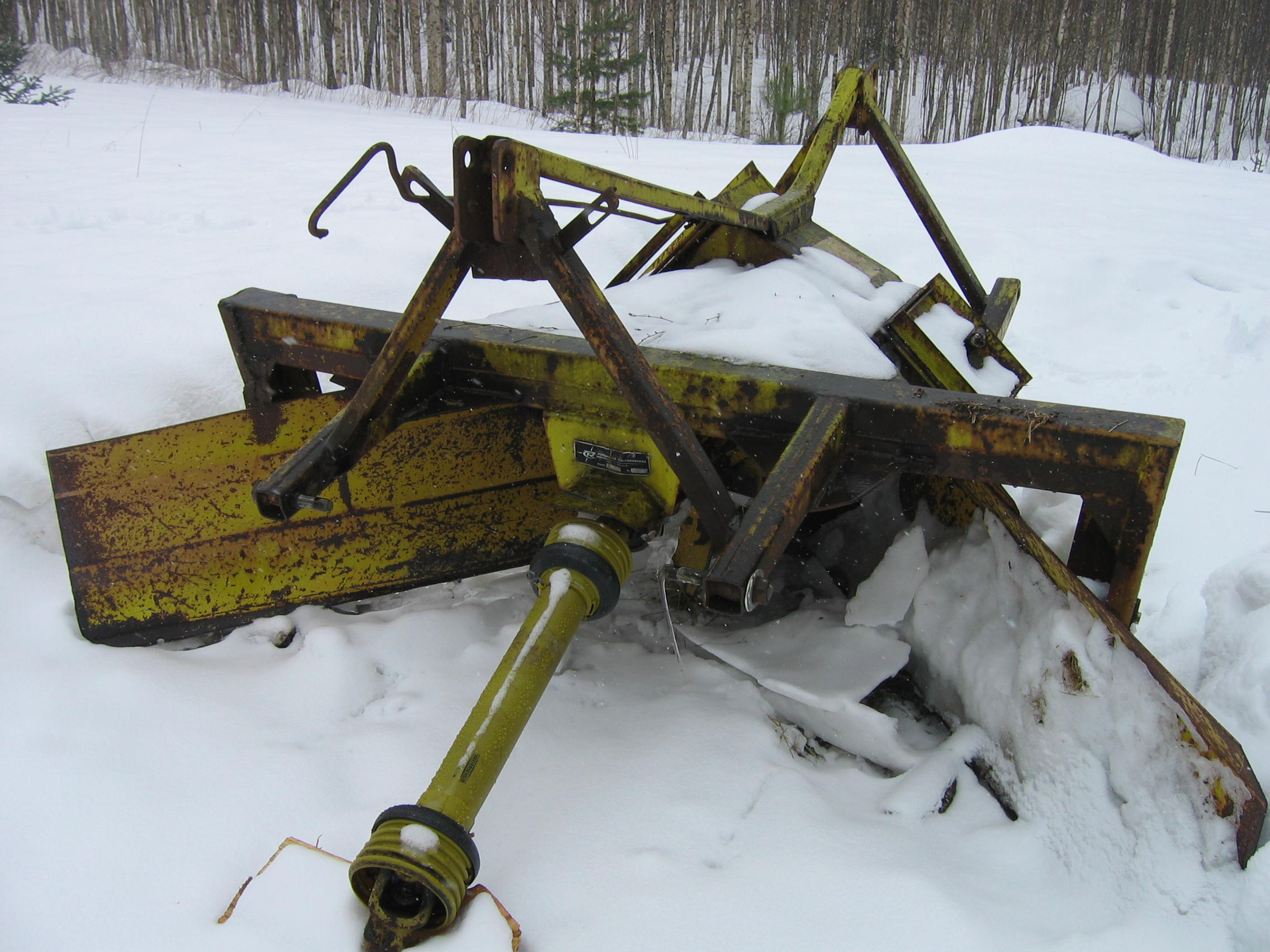 Finnish made small snowblower to be used by farming tractors.